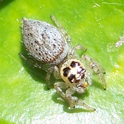 Colonus hesperus. Female. Size ~ 1 cm.